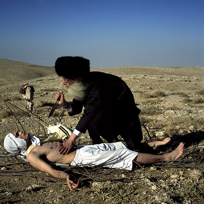 photograph